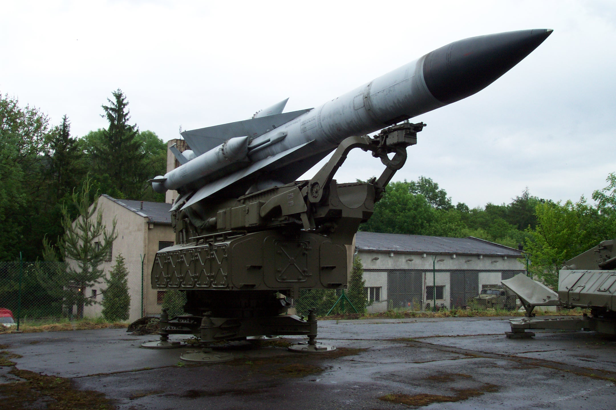 Antiaircaft rocket station S-200 Vega (SA-5 Gammon) in the army museum in Lešany